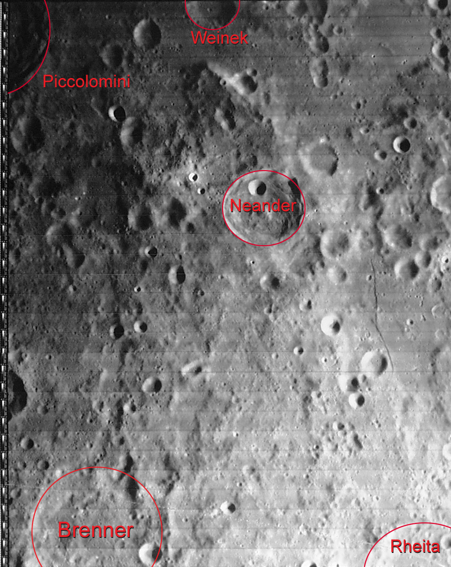 Neander lunar crater Photo Number IV-071-H3. Sun Angle: 66.5 ° Spacecraft Altitude: 2972.29 km Medium Res. Photo Center Coordinates: 43.69°S/46.67°E Feature Latitude/Longitude Size Brenner 39.0°S/39.3°E 97 km Neander 31.3°S/39.9°E 50 km Piccolomini 29.7°S/32.2°E 87 km Rheita 37.1°S/47.2°E 70 km Weinek 25.7°S/37°E 32 km